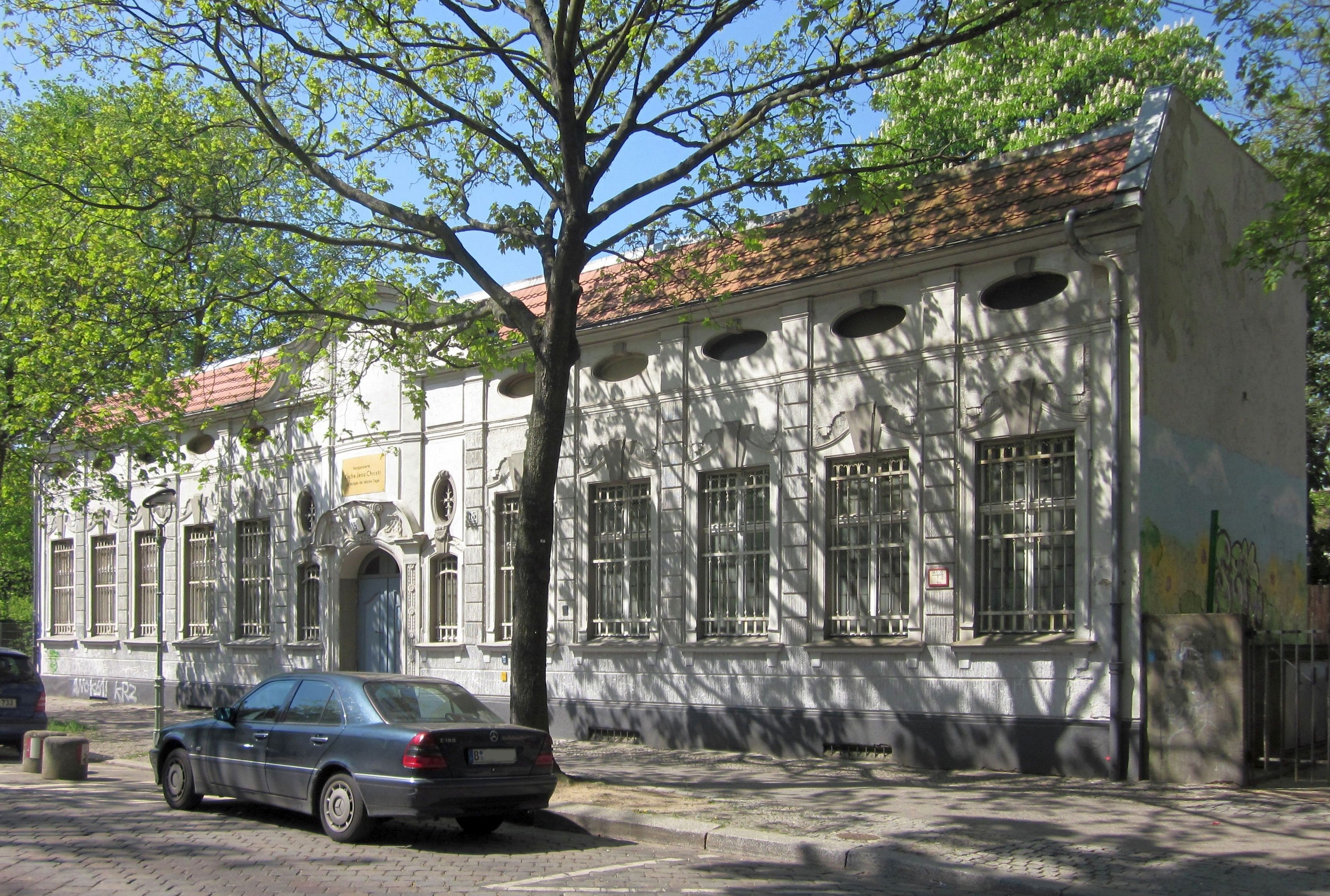 Former administration building at Fontanestraße No. 15 in Berlin-Kreuzberg. The building was constructed in 1906 to a design by Johannes Kraaz. From 1938 to 1943, it was seat of the "Zentralstelle für Juden" (Central Office for Jews) of the Berlin Employment Agency. After WWII, The Church of Jesus Christ of Latter-day Saints (Mormons) used it for several decades, but has now sold it. The building has been designated as a cultural heritage monument.